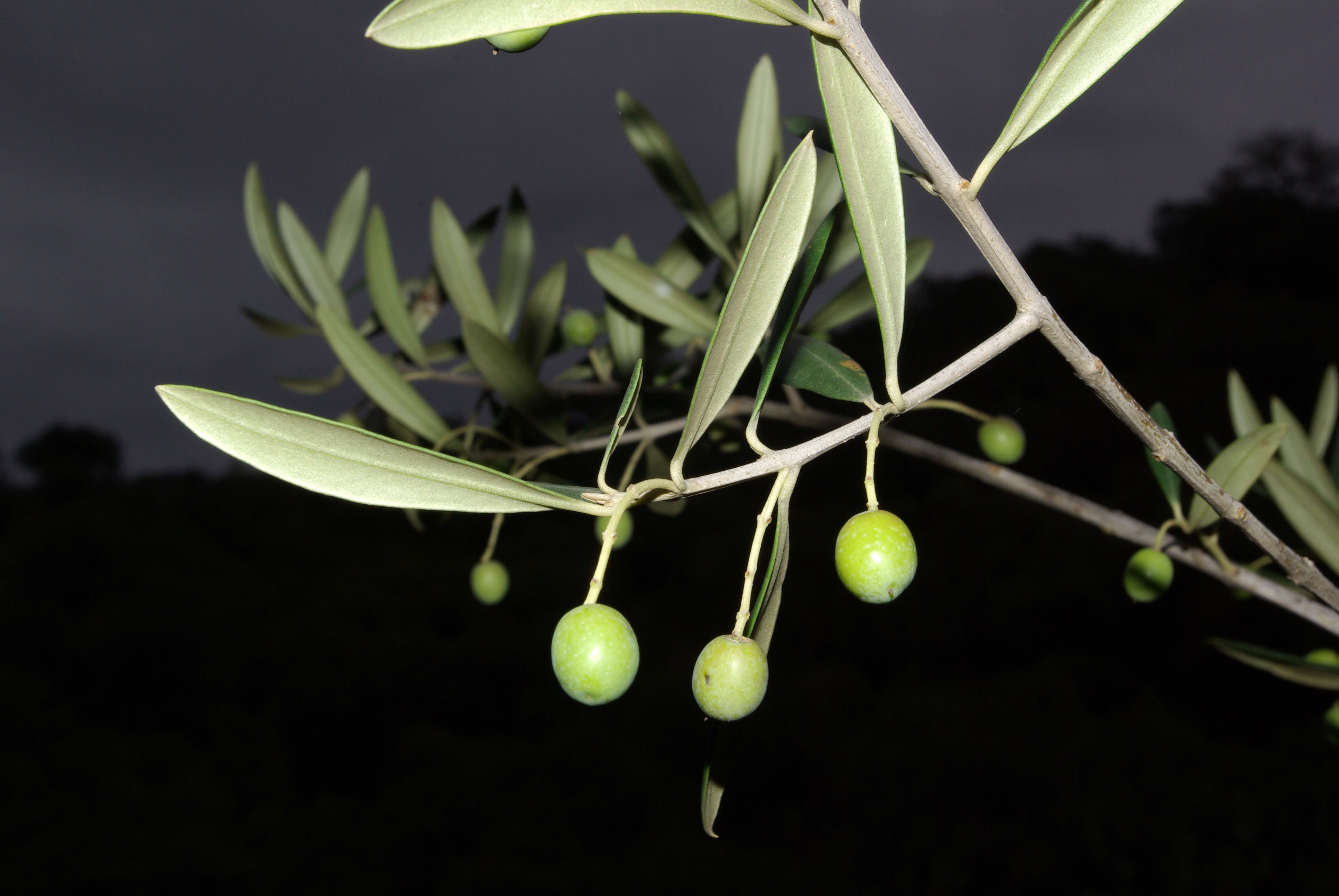 Fruits of Olive (Olea europaea). In Monfragüe, Cáceres (Spain)